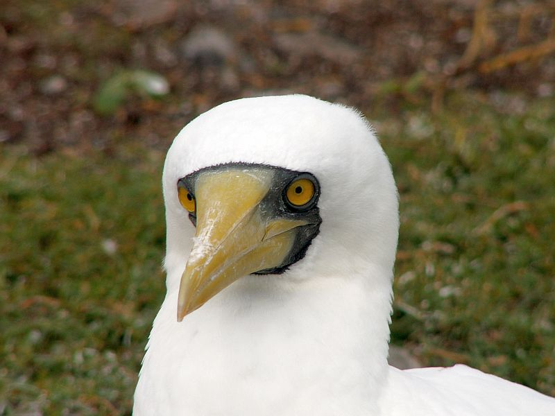 Masked Booby (Sula dactylatra dactylatra) at Abrolhos, Bahia Brasil